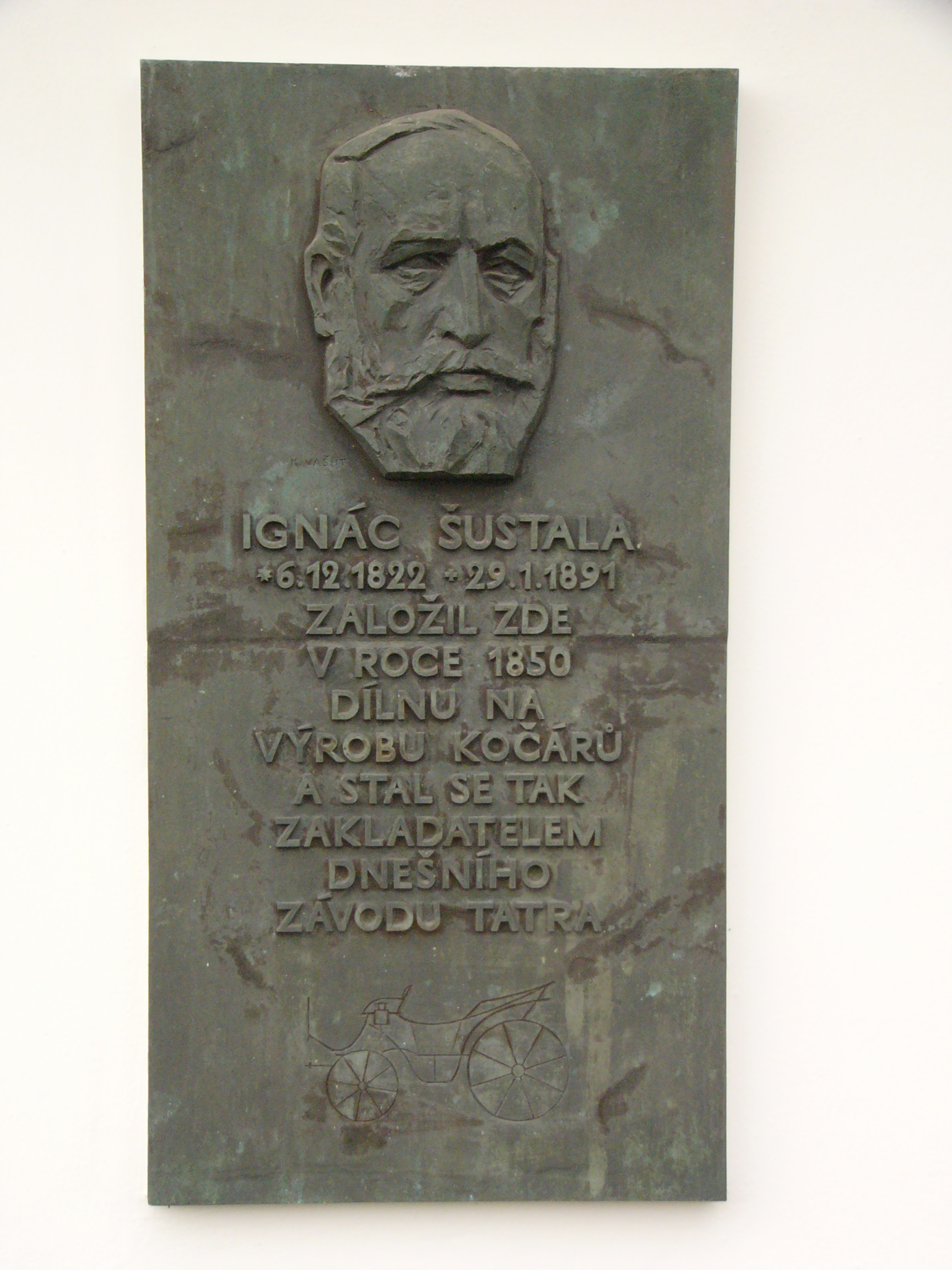 Memorial plaque dedicated to Ignác Šustala in Muzeum Fojtství museum in Kopřivnice (Czech Republic).